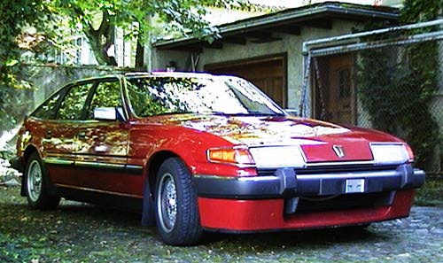 Red Rover SD1 Vitesse, 1985, right frontal view